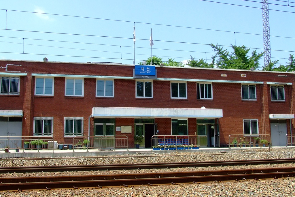 Gyeongbu Line, Secheon Station